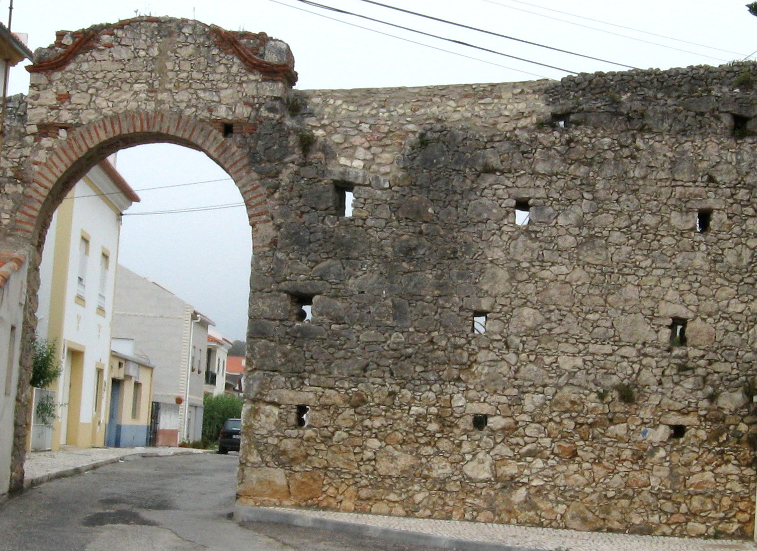 Nazaré, Portugal, Sítio, part of the old wall, 16th century